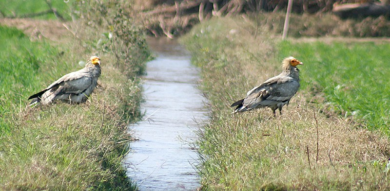 Egptian Vulture Neophron percnopterus at Hodal in Faridabad District of Haryana, India.